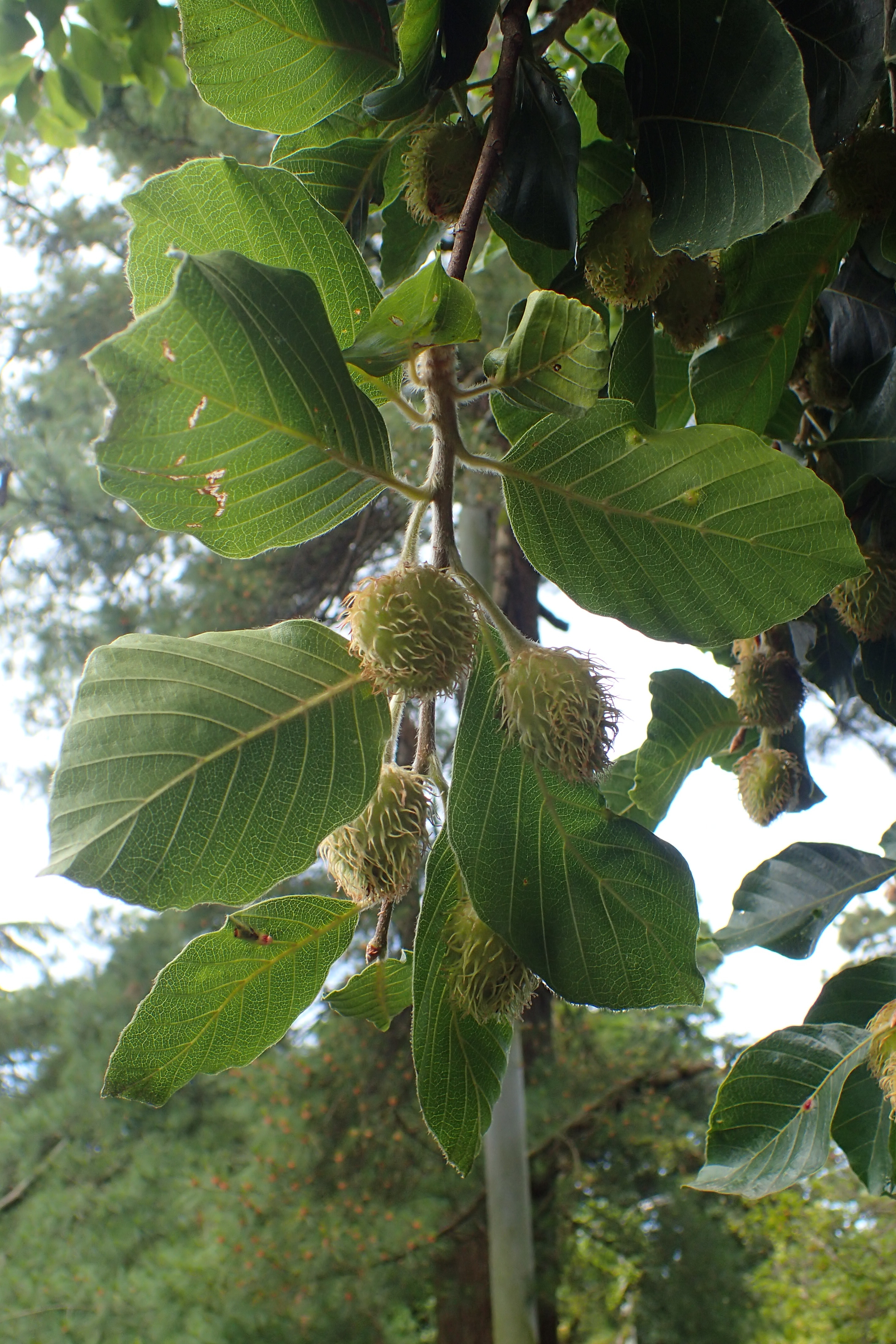 Fagus orientalis in botanical garden in Batumi